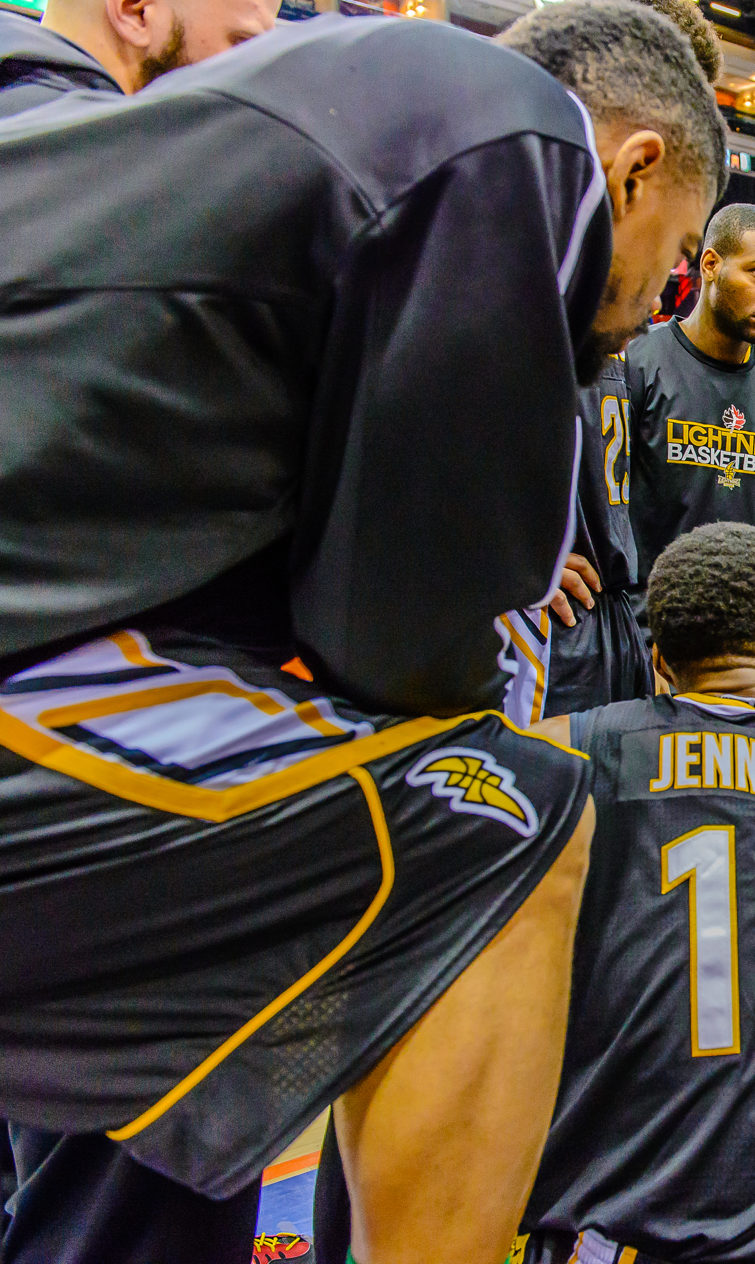 The London Lightning discussing what to do next against the Halifax Rainmen during NBLC action